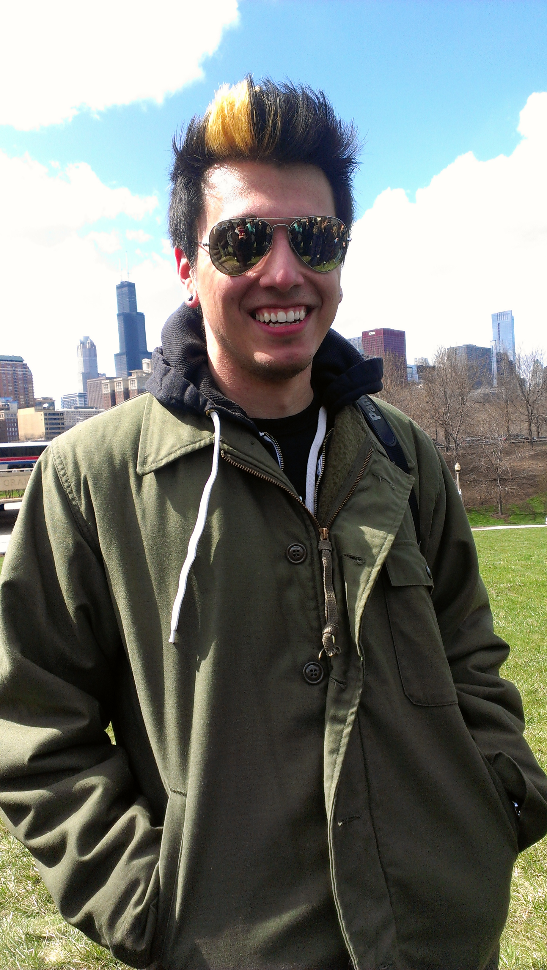 Michael Aranda in 2013.